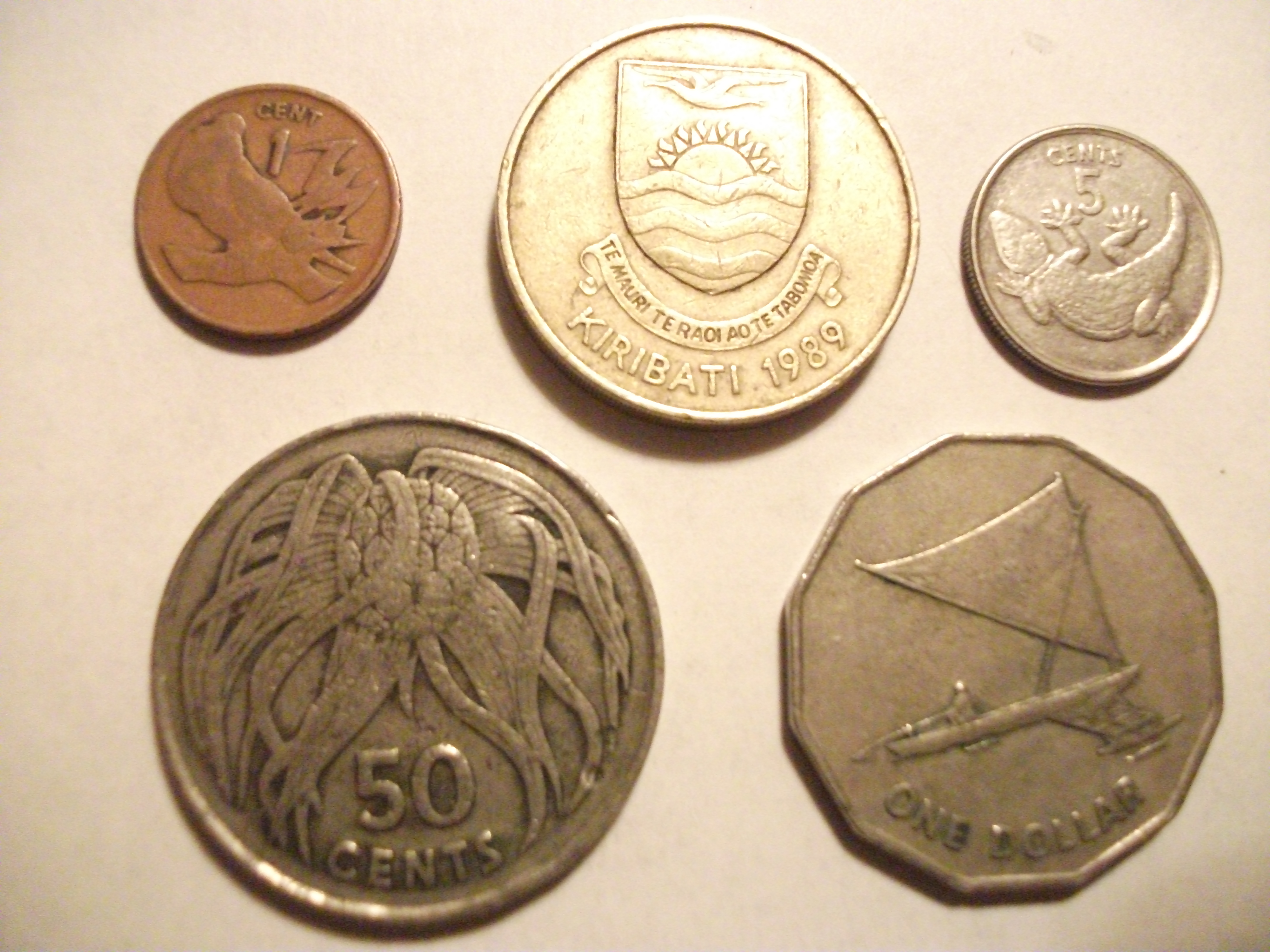 Circulated 1, 5, & 50 cents and 1 & 2 dollar coins from Kiribati. New coins have not been issued since 1992, making these increasingly rare and well worn.